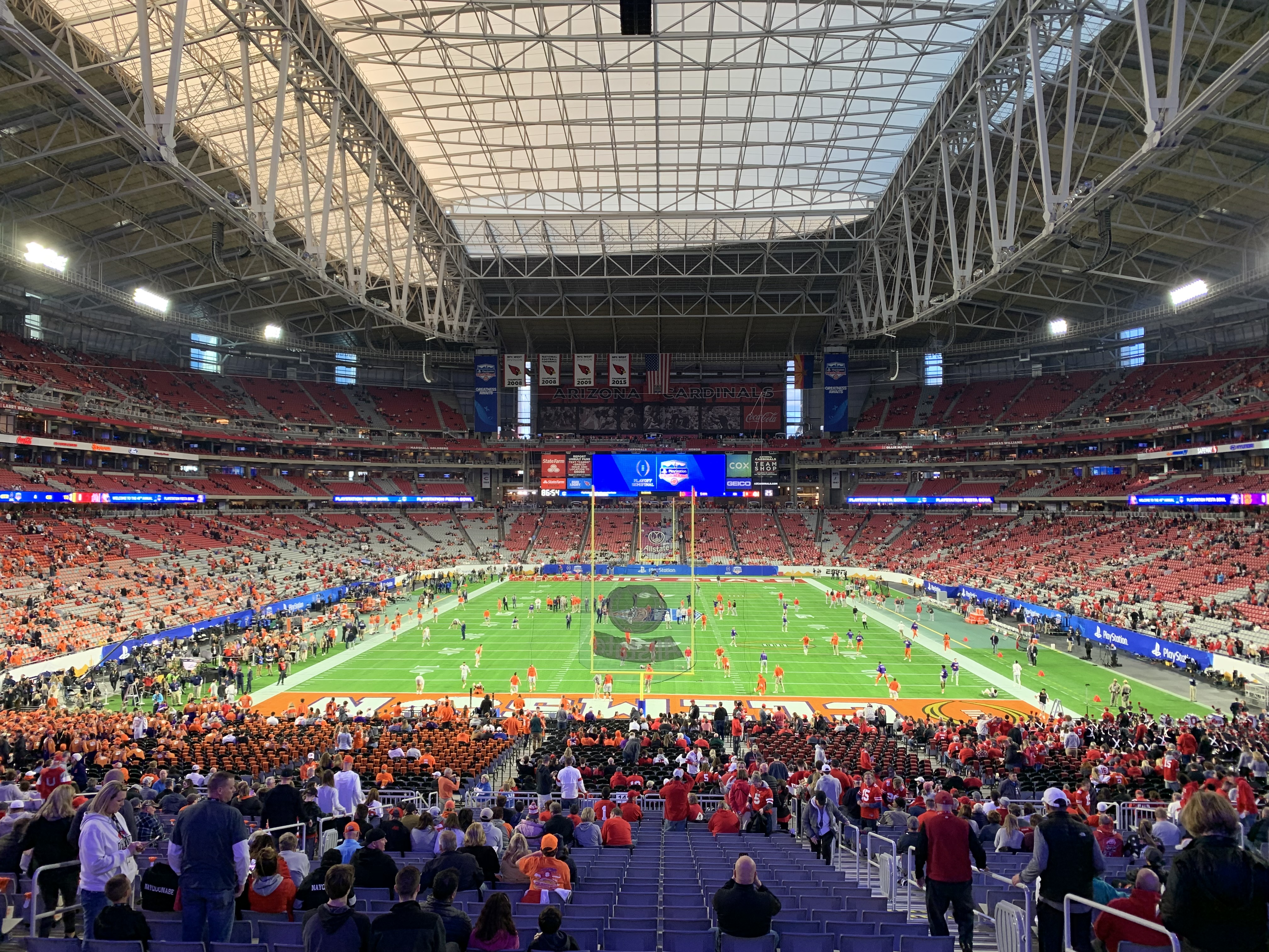 State Farm Stadium before the 2019 Fiesta Bowl. Photograph taken from the Clemson (south) end of the stadium on December 28, 2019.